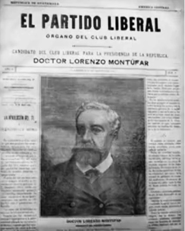 Grabado del licenciado Lorenzo Montúfar y Rivera como parte de su campaña presidencial en 1892.